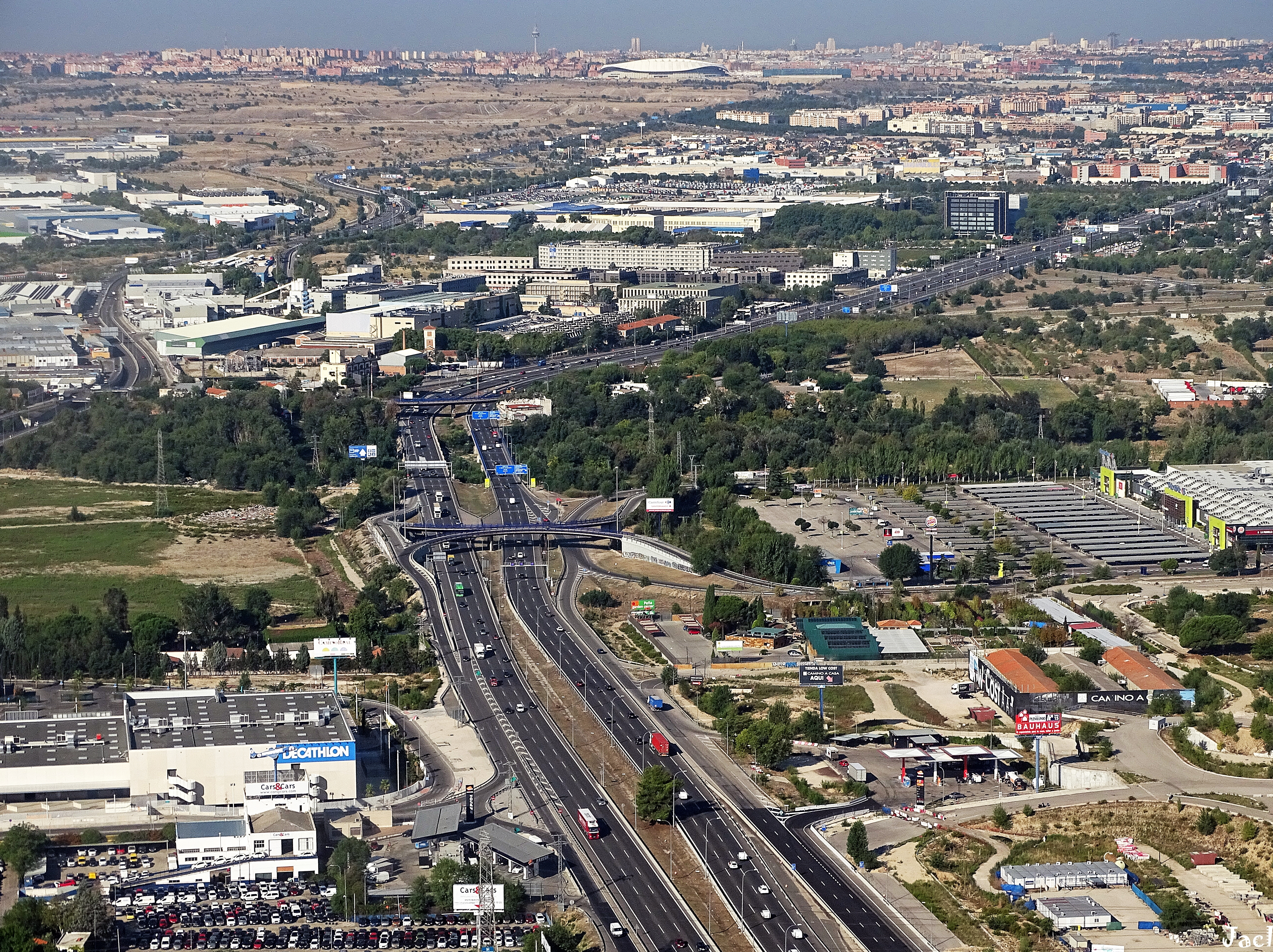 Aerial view (flight Malta-Madrid)